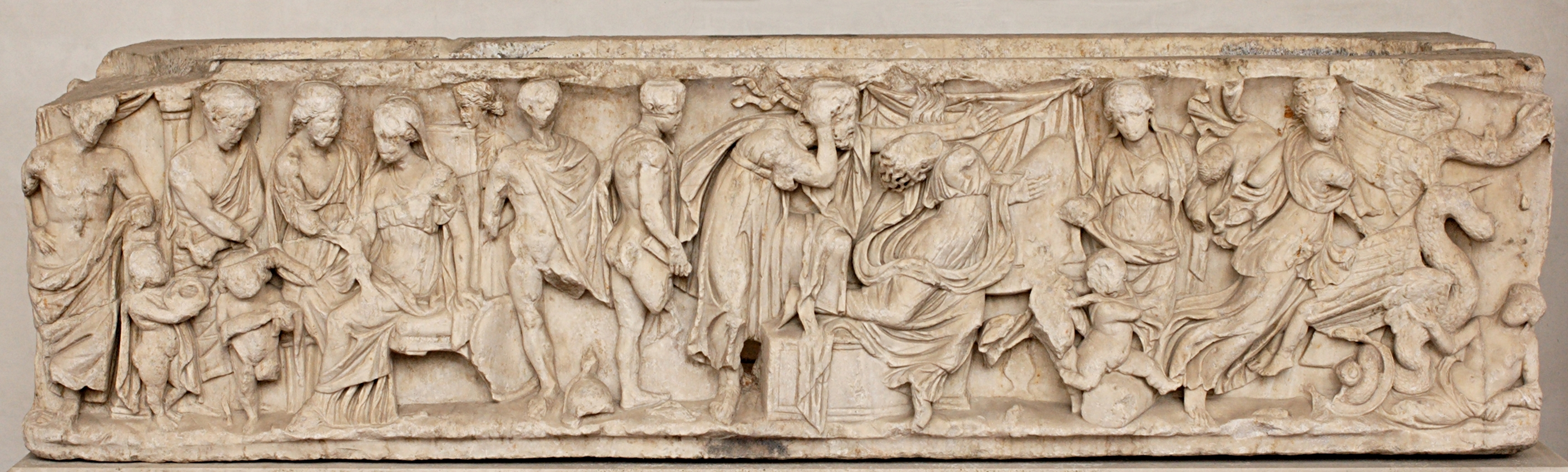 Sarcophagus with scenes from the myth of Medea: the sending of gifts to Creusa; the death of Creusa; the departure of Medea with the bodies of her children. Greek marble, 150-170 CE.